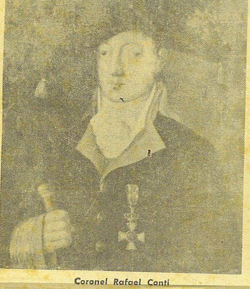 Image of Rafael Conti (1746–1814)